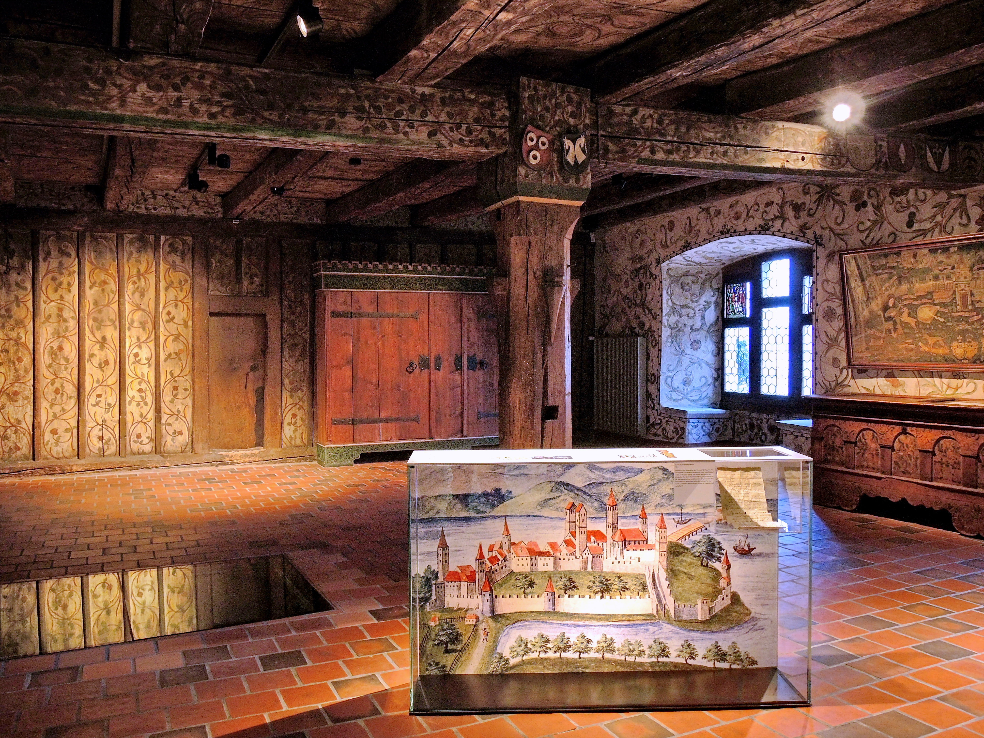 Collection of the Stadtmuseum) in Rapperswil (Switzerland)